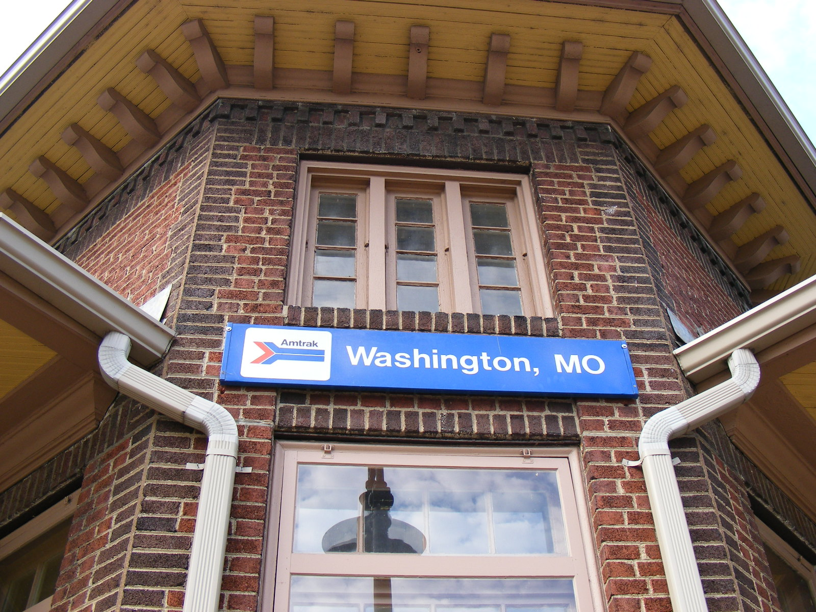 A picture of the station sign at the Amtrak station in Washington, Missouri